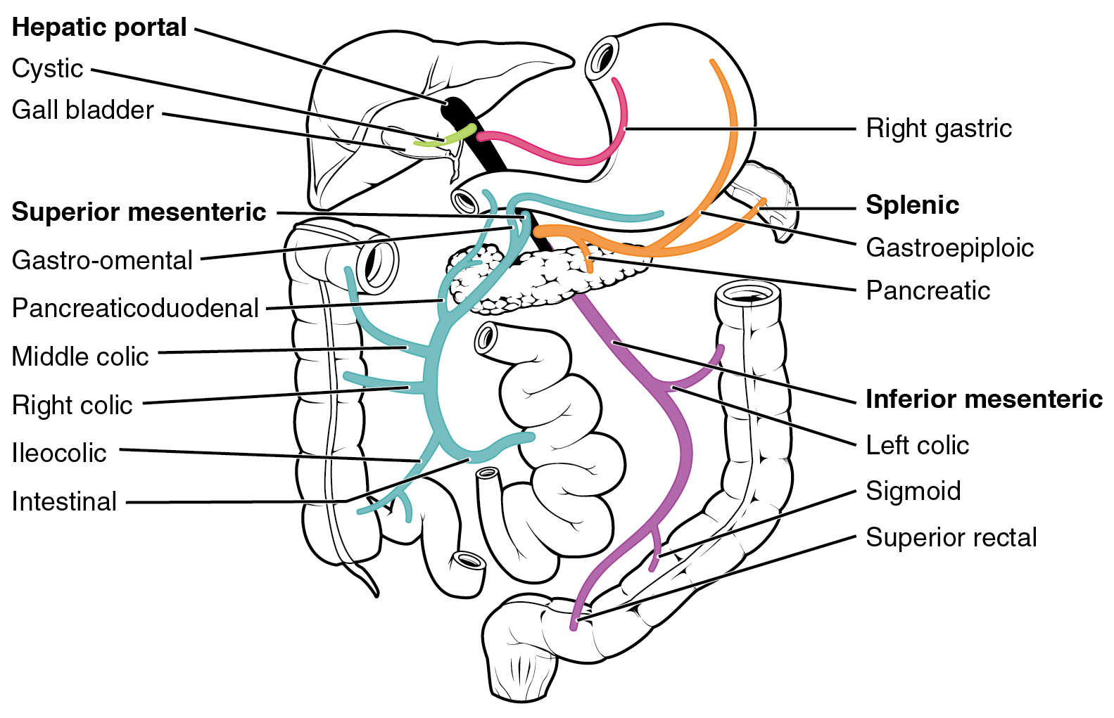 Illustration from Anatomy & Physiology, Connexions Web site. Jun 19, 2013.